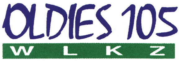 Former logo of the radio station WLKZ used from 1996 through March 2001.